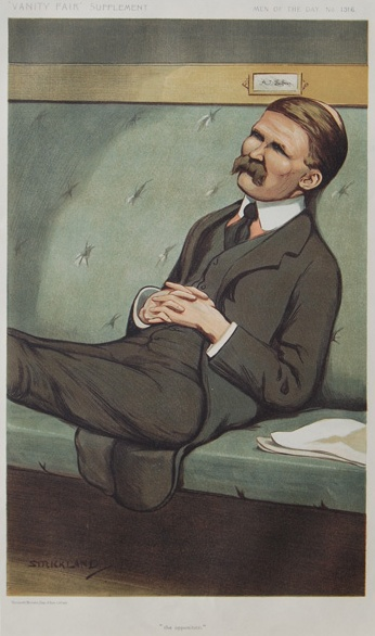 Caricature of The Rt Hon A Bonar Law MP PC JP. Caption read "the opposition".